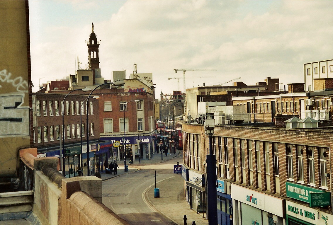 The Centre of Lewisham, February 2005 picture taken by myself at Lee High Road/Lewisham High Street - scanned to computer